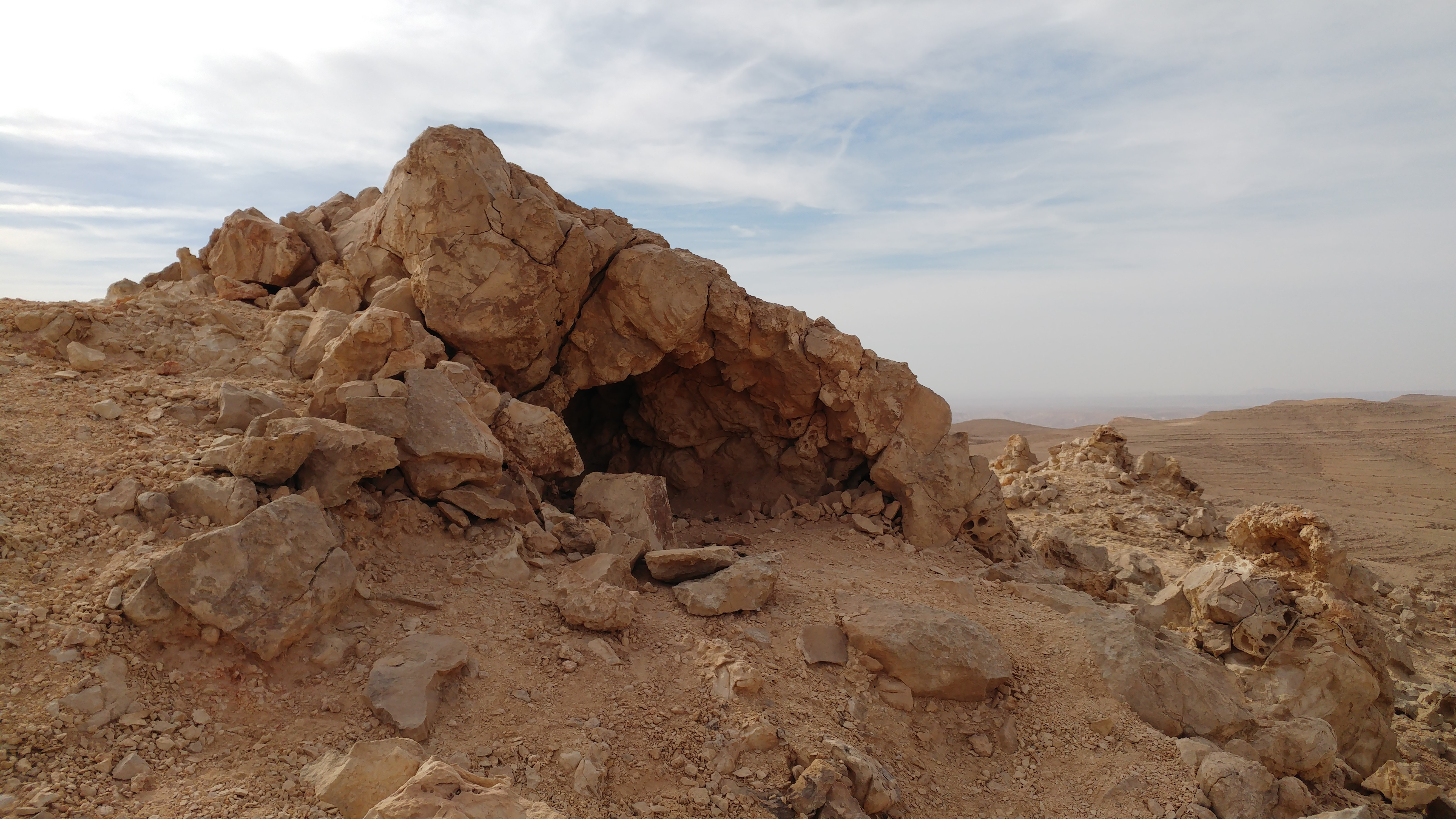 "Cave of Moses" on Har Karkom summit, Israel.